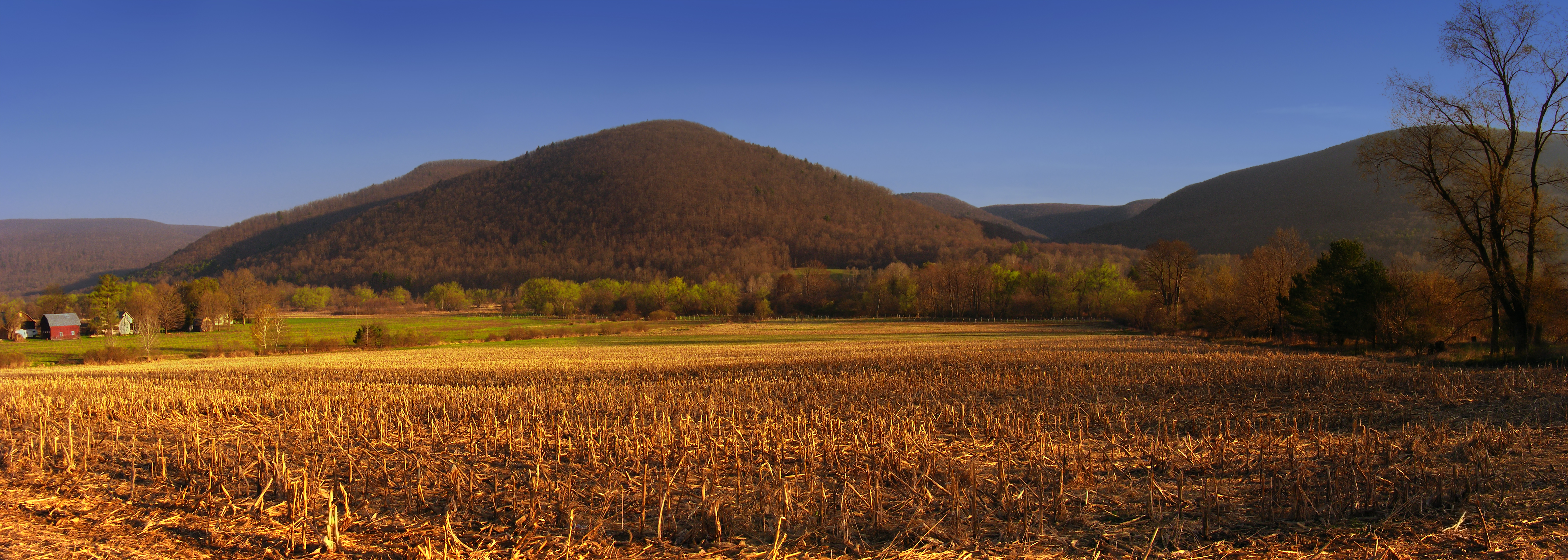 Early-morning light, Shippen Township, Tioga County, as seen from Route 6. Smoke from nearby forest fires added a touch of haze to the scene. Several days of high winds and unseasonably warm temperatures created tinder-dry conditions.